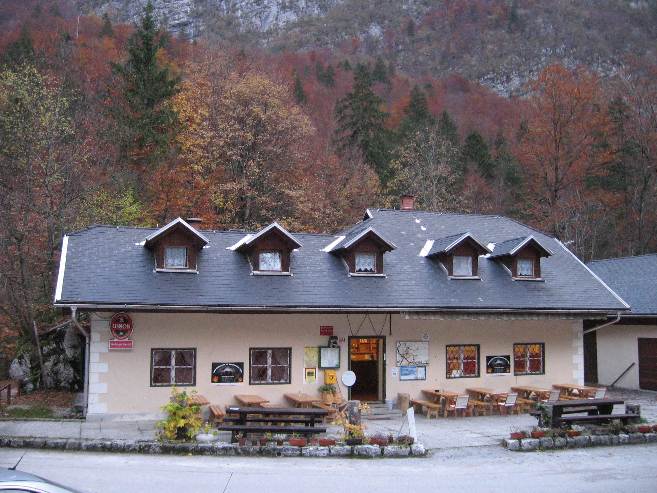 Hut near Savica waterfall, Julian Alps